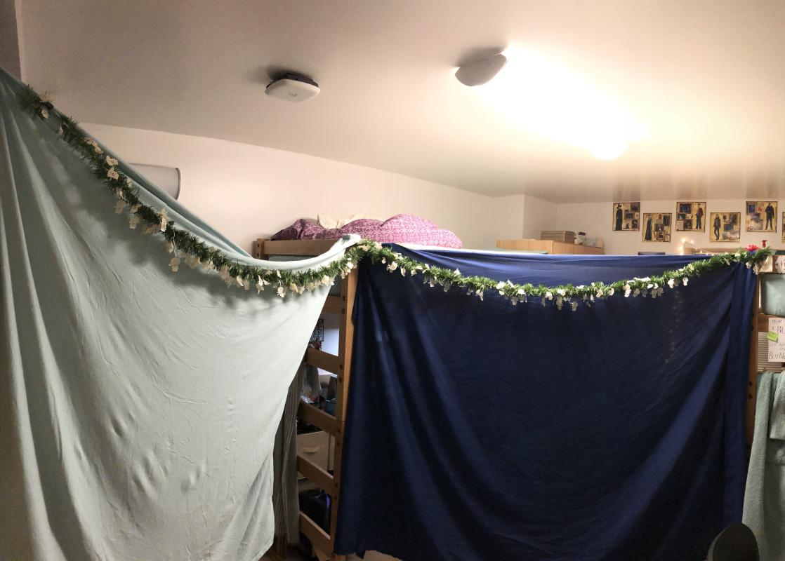 This blanket fort was constructed during the 2019-2020 school year, and served as a cozy, cave-like space. It was built out of nostalgia for the childhood practice of such structures, and yet served its adult occupants well for many days.